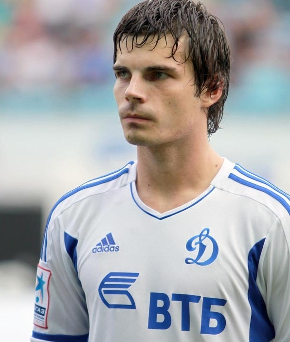 Yusupov Artur